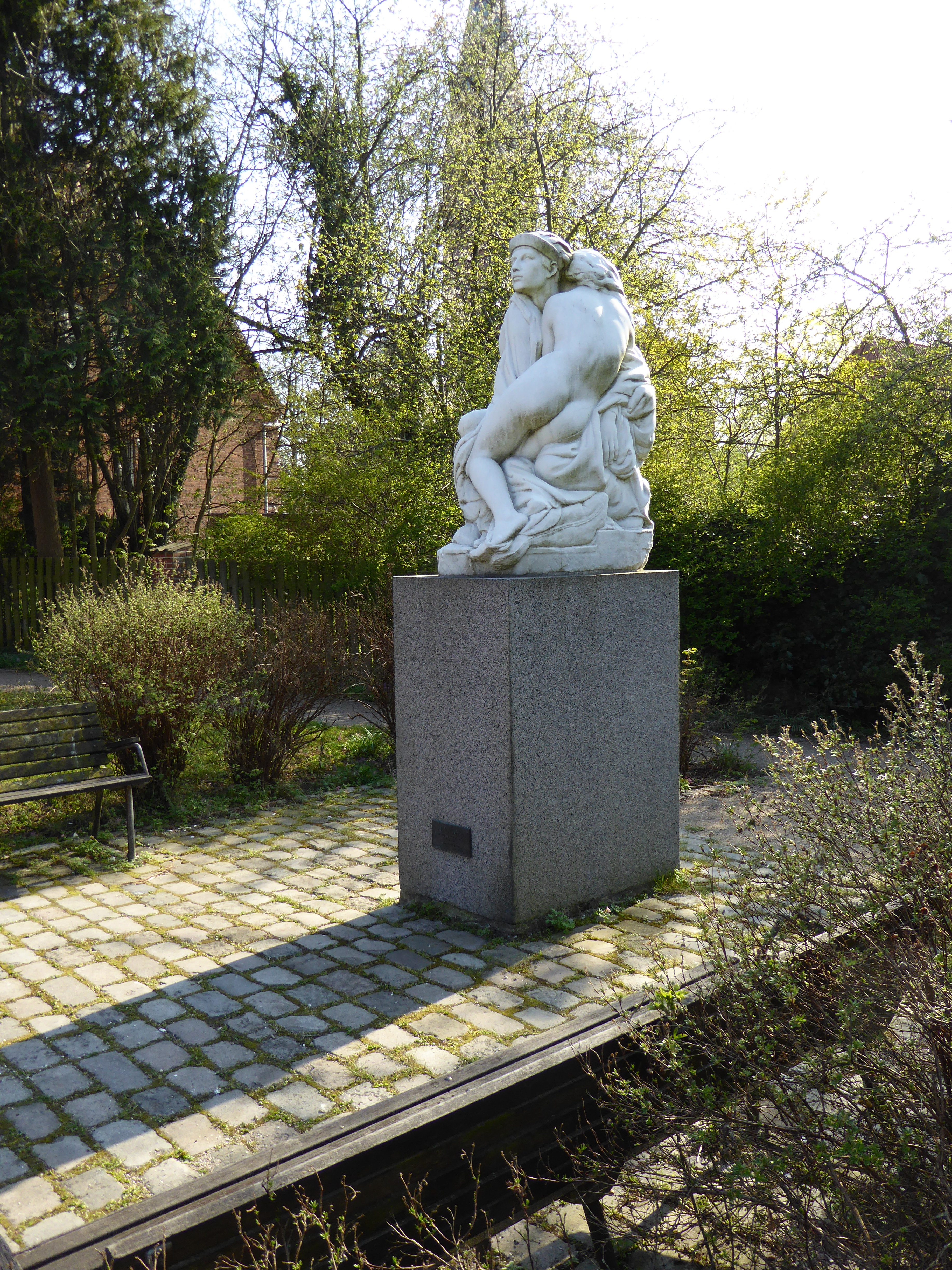 MArble sculpture by Anders Bundgaard on Valby Langgade in Copenhagen, Denmark